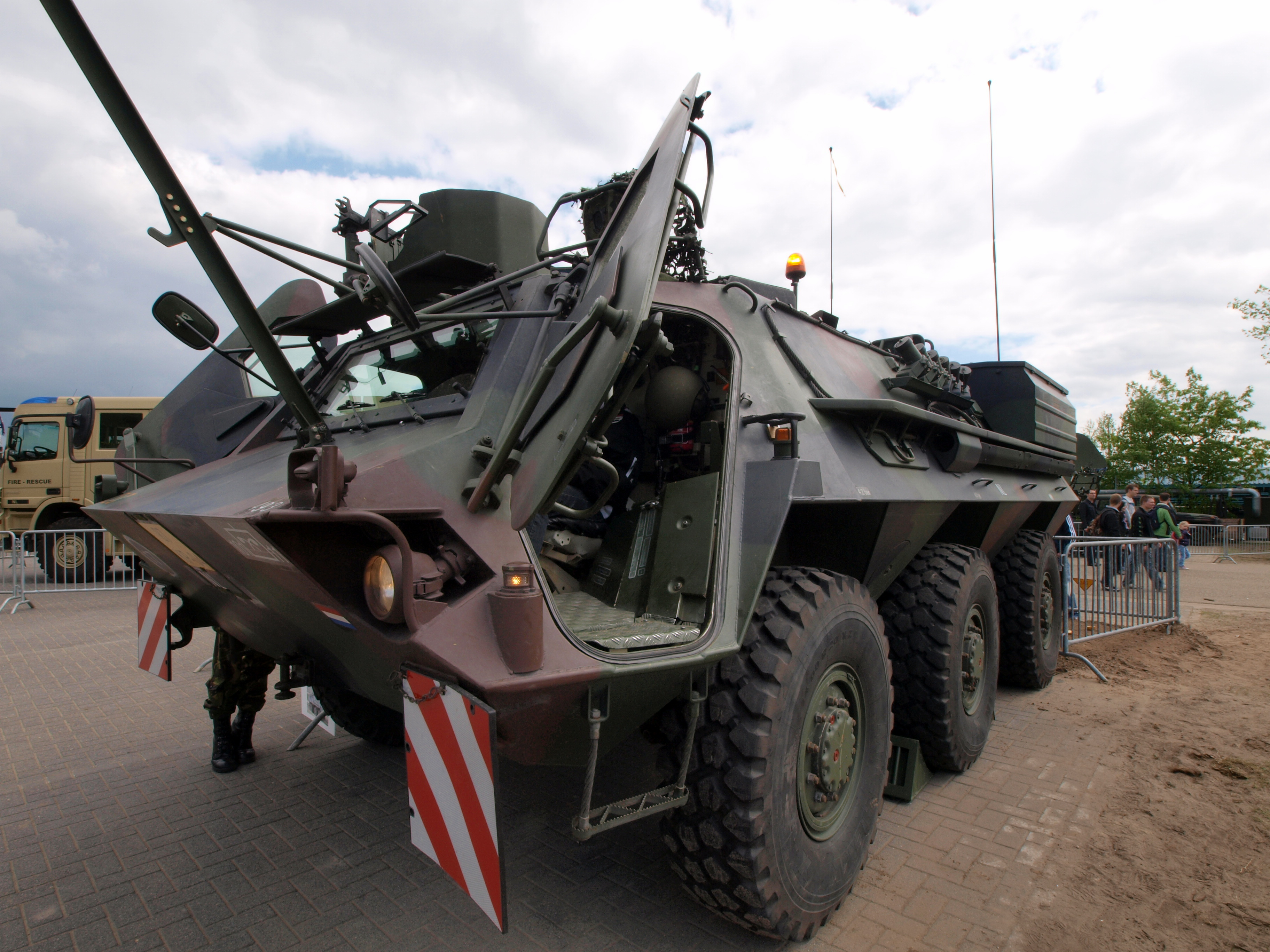 Photographed at the Open house / Open door Landmachtdagen 2012 in Oirschot the Netherlands. Fuchs vehicle of the Dutch army.